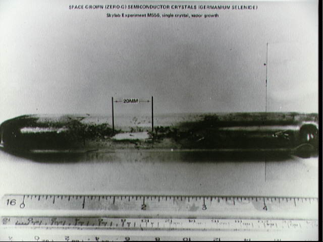 GeSe crystal grown aboard of Skylab by chemical vapor transport